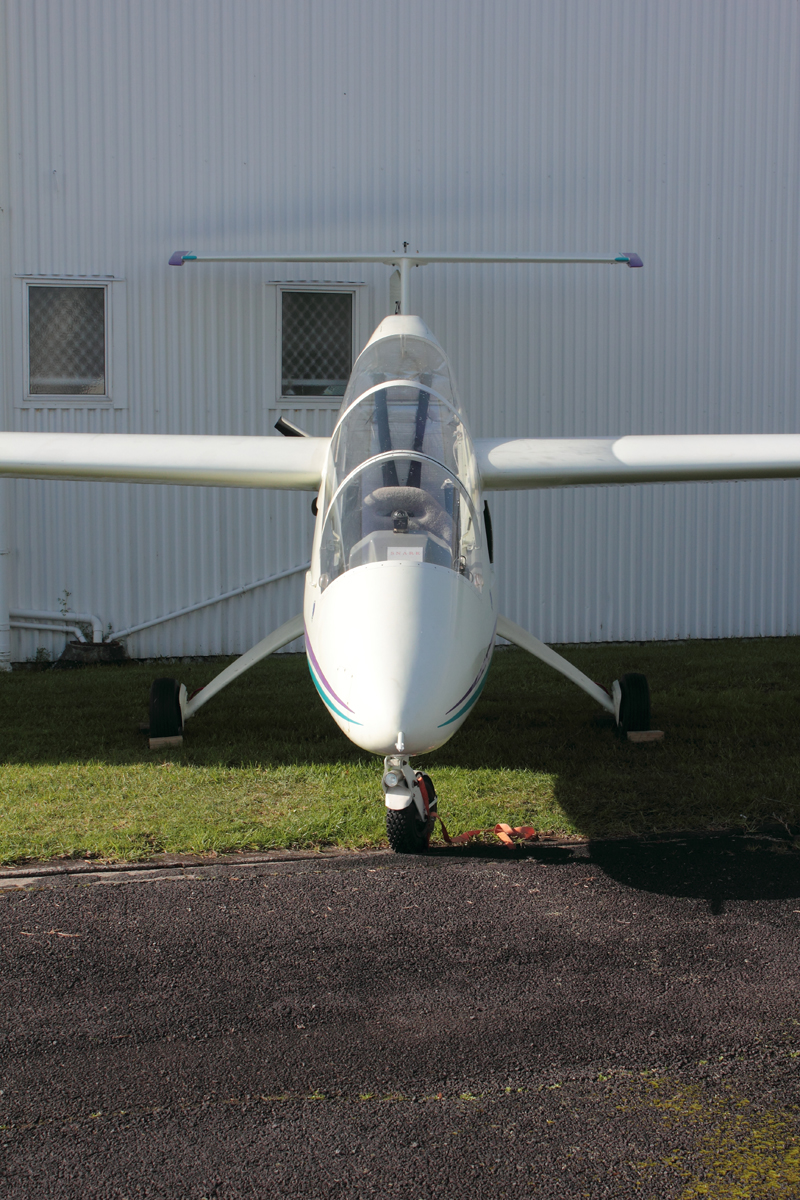 ZK-JEK Barber Snark HA/3 (001), , 09 July 2013 - Ardmore